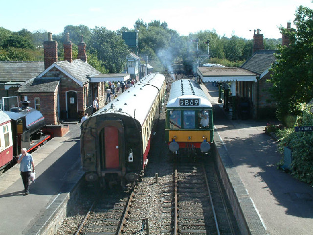 Castle Hedingham station on the Colne Valley railway.